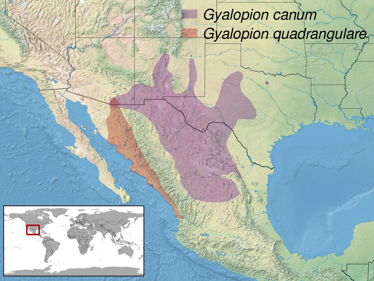 geographic distribution of the genus Gyalopion (Native: Mexico; United States). Included species for RDB: Gyalopion canum and Gyalopion quadrangulare